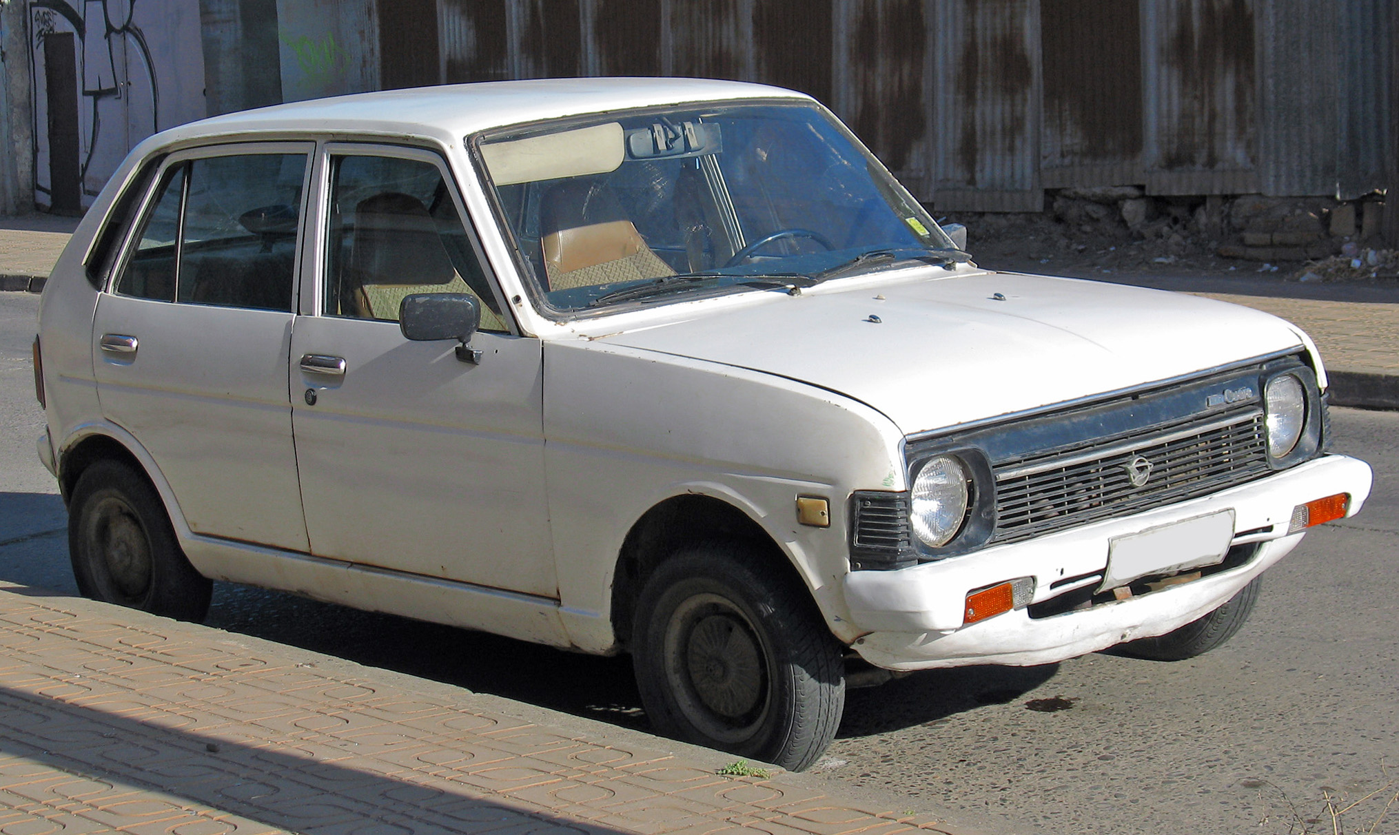 1981 Daihatsu Max Cuore 550 in Chile.